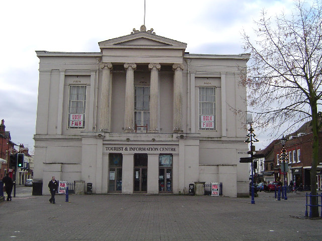 St Albans: The former Town Hall. The nineteenth century Grade II listed Town Hall in the Market Place.